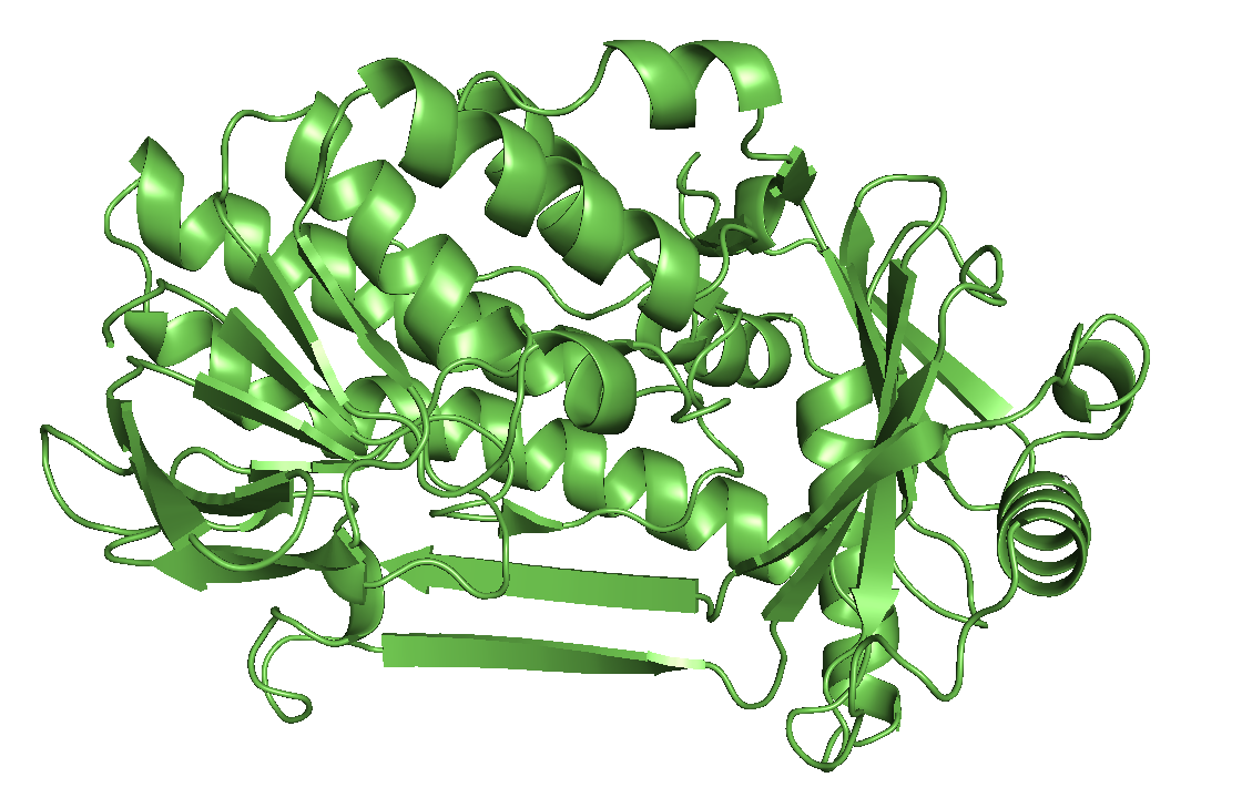 Crystal structure of 4-hydroxybenzoate 3-monooxygenase